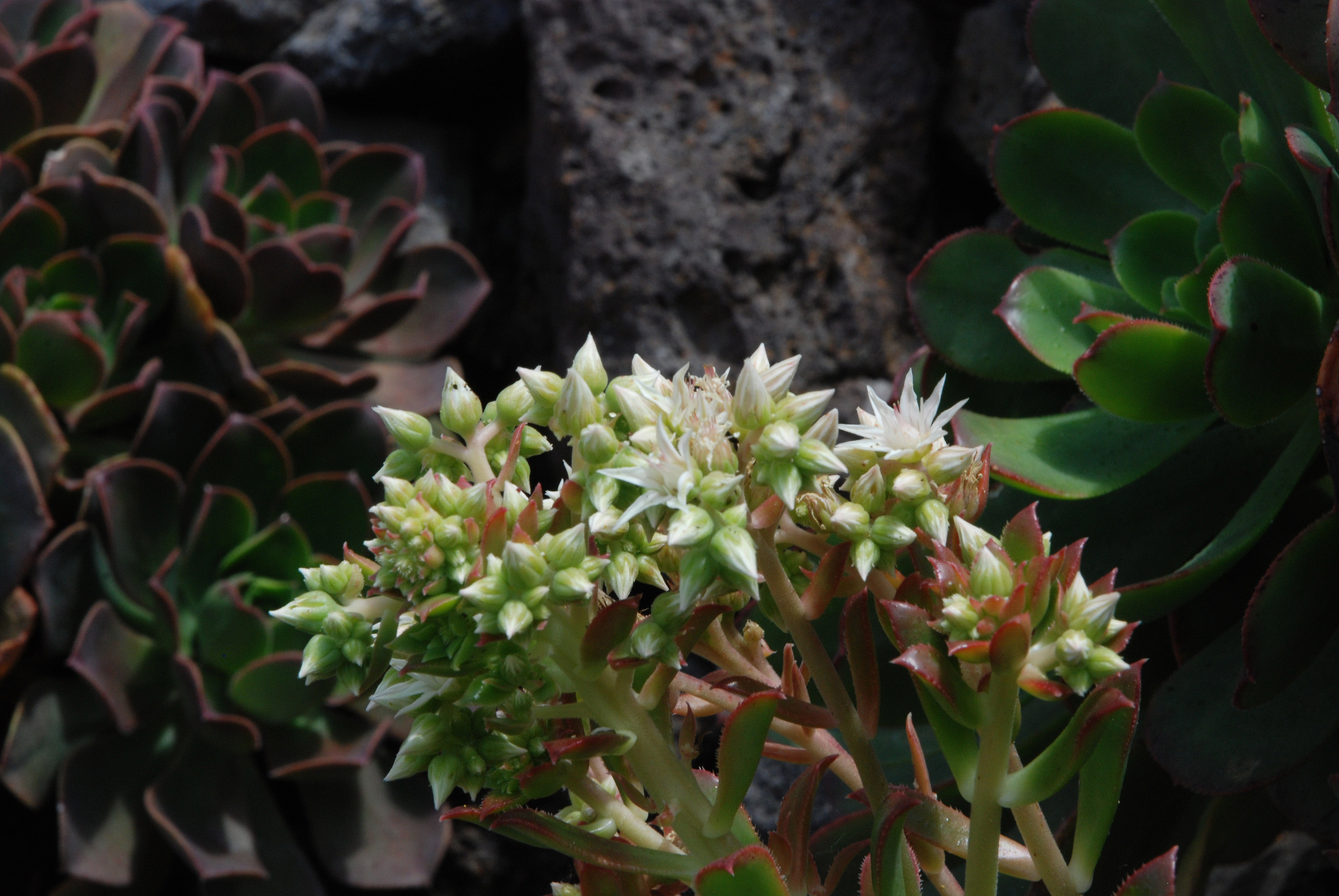 Aeonium davidbramwellii, Caldera de Taburiente, Near La Caldera, La Palma, Spain